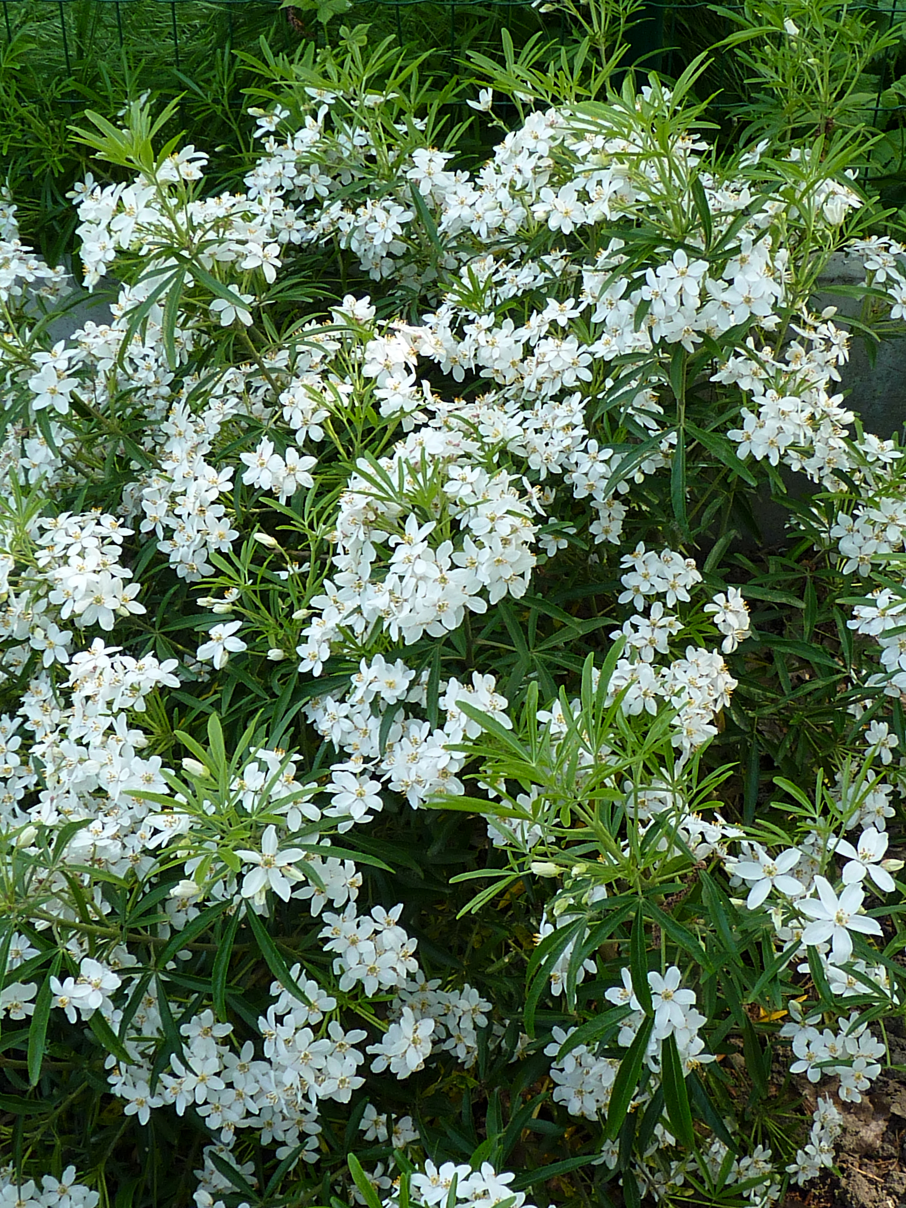 Choisya 'Aztec Pearl', in a garden in Belgium.